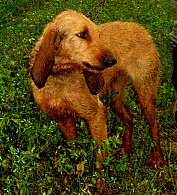 Rough-Coated Italian Hound (Segugio Italiano a pelo forte)